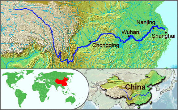 The underlying topographic maps used in this image come from the Demis Web Map Server, and are in the public domain. The world locator map is derived from :Image:BlankMap-World.png. I added the feature layers myself. —Papayoung ☯ 20:57, 1 October 2005 (UTC)